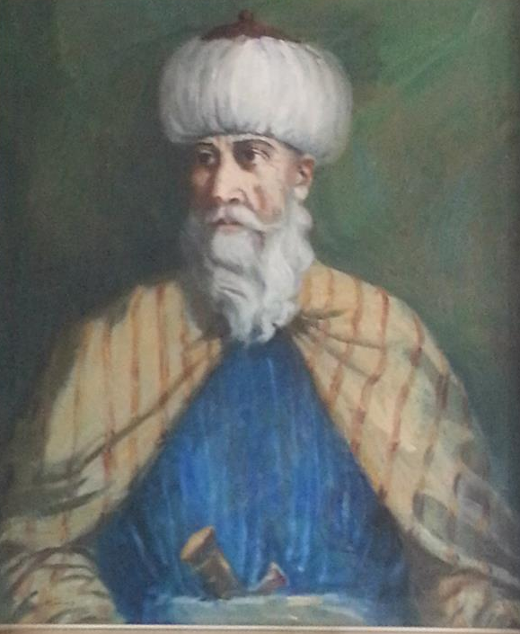 Emir Faḫereddin Ibn Ma'n II "the Great". Emir of the Lebanon, Sidon, the Galilee, and the rest of the Levant during the first quarter of the Seventeenth Century, and the most famous figure of the Ottoman Empire during that era